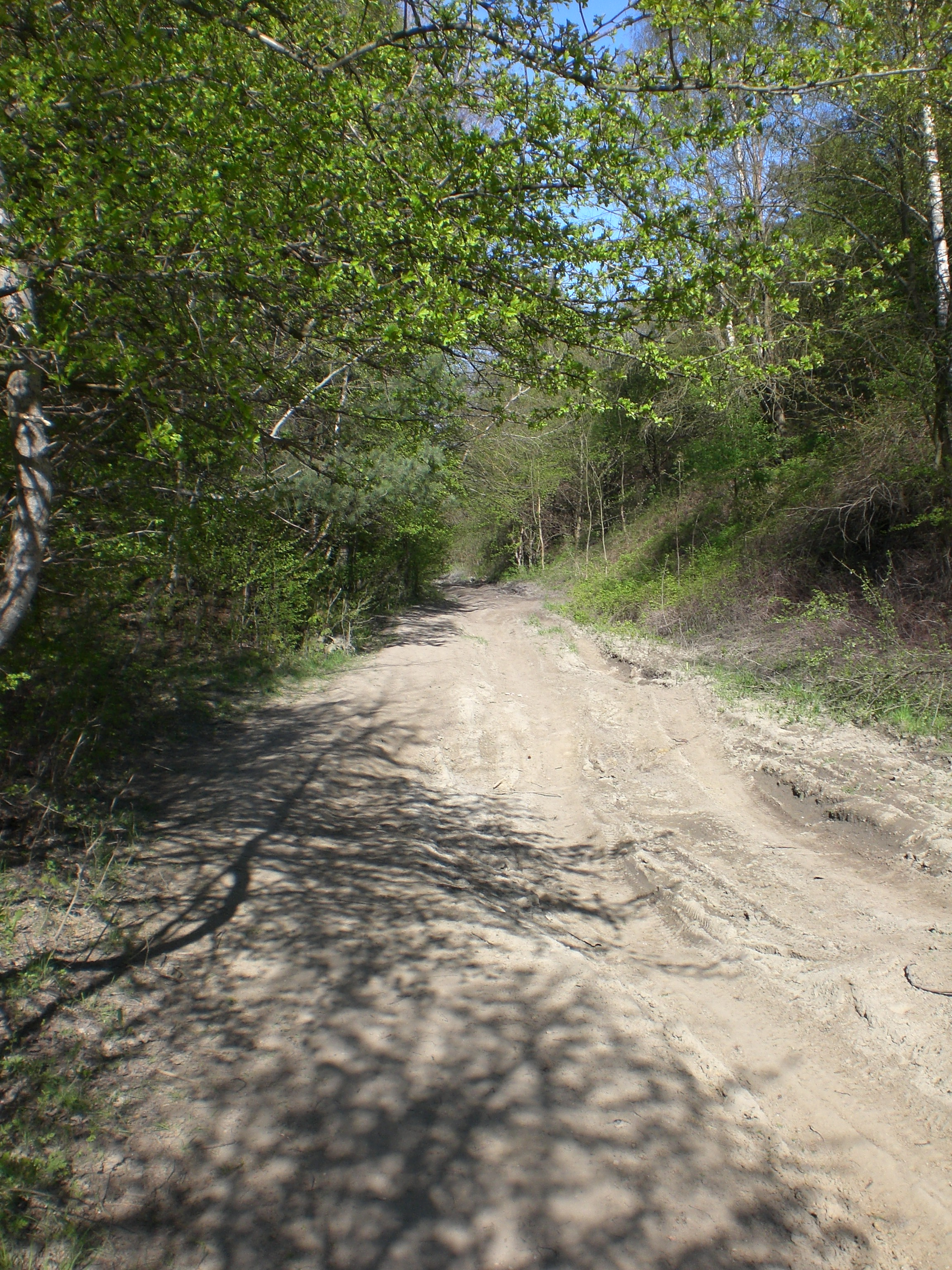 Former railway line from Gdańsk Wrzeszcz to Stara Piła